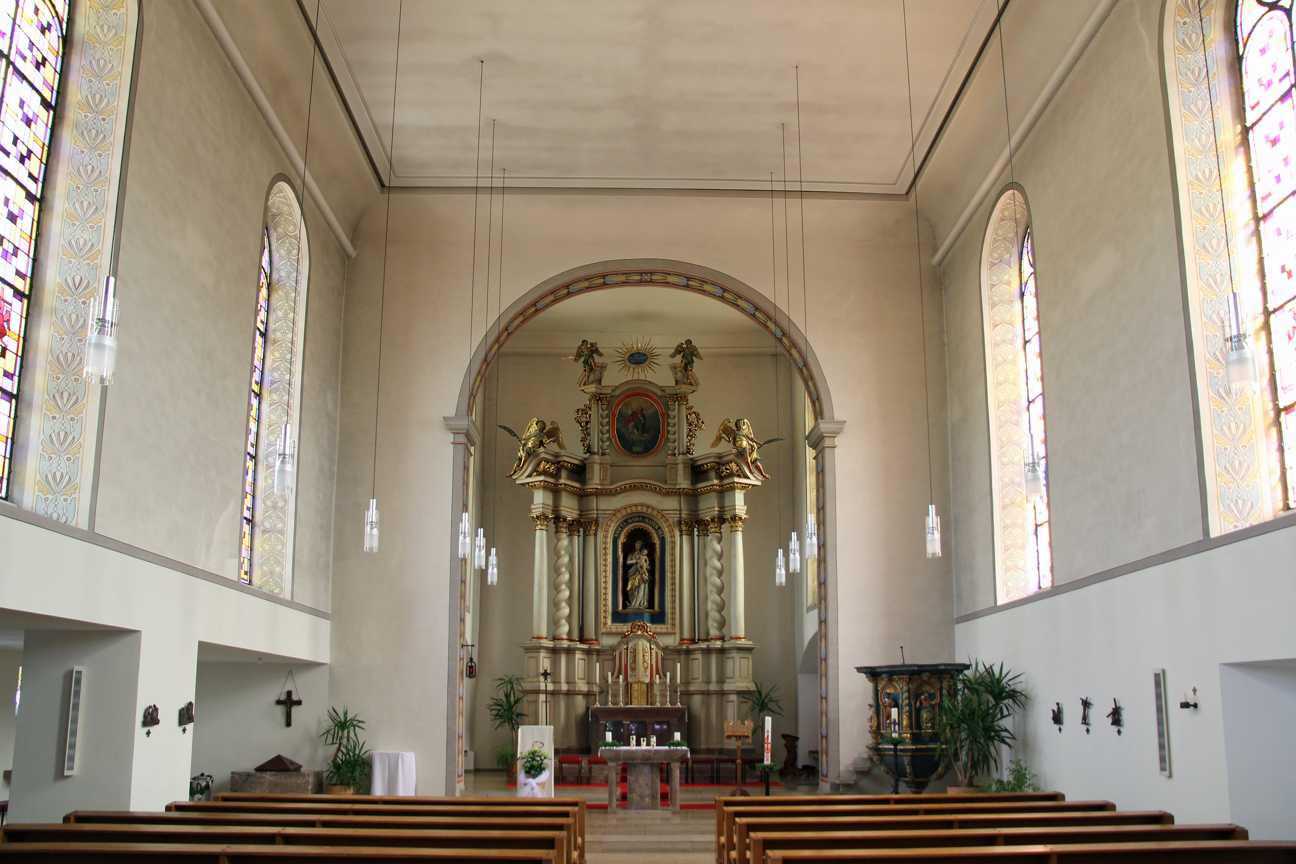 St. Pankratius church in Koblenz